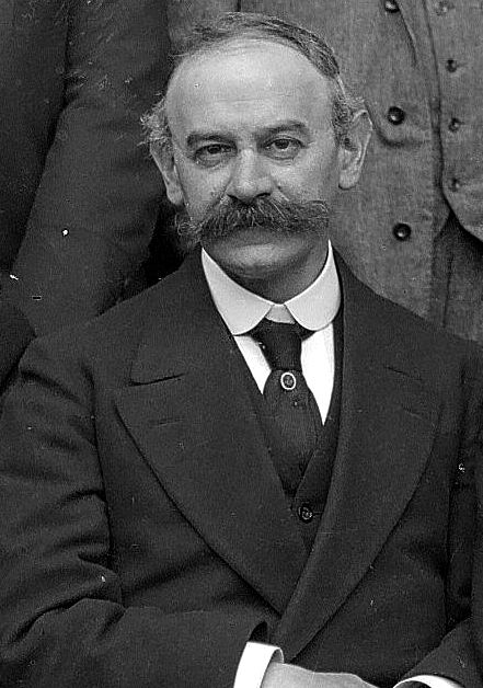 Clarence Feldmann, 1914